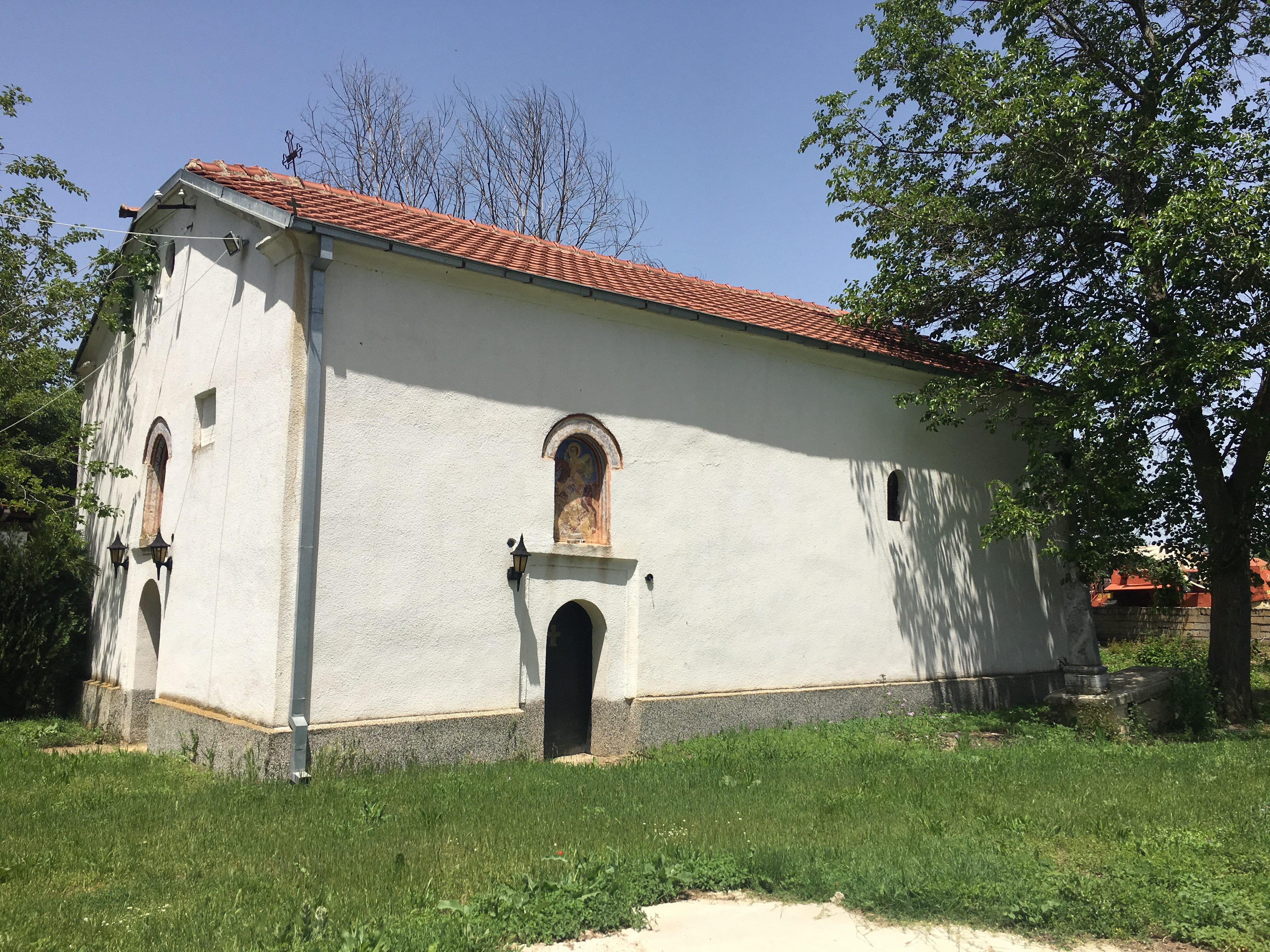 St. Michael the Archangel Church in the village of Klepač